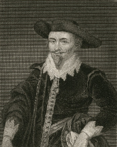 Collection: Folger Shakespeare Library Digital Image Collection Collection Folger Shakespeare Library Digital Image Collection Collection Source Creator: Pye, Charles, 1777-1864, printmaker. Author Pye, Charles, 1777-1864, printmaker. Source Creator Source Title: Richard Braithwaite [sic], from a scarce print by Vaughan prefixed to his English gentleman [graphic] / drawn by G. Clint A. R. A. ; engraved by C. Pye. CD_Title Richard Braithwaite [sic], from a scarce print by Vaughan prefixed to his English gentleman [graphic] / drawn by G. Clint A. R. A. ; engraved by C. Pye. Source Title Source Created or Published: London : Published by W. Walker, 1823. Imprint London : Published by W. Walker, 1823. Source Created or Published Source Call Number: ART File B824 no.1 (size XS) Call_Number ART File B824 no.1 (size XS) Source Call Number Digital Image File Name: 21228 ROOTFILE 21228 Digital Image File Name Digital Image Type: FSL collection Image_Type FSL collection Digital Image Type Hamnet Bib ID: 249434 Bibrecord001 249434 Hamnet Bib ID Hamnet Holdings ID: 321977